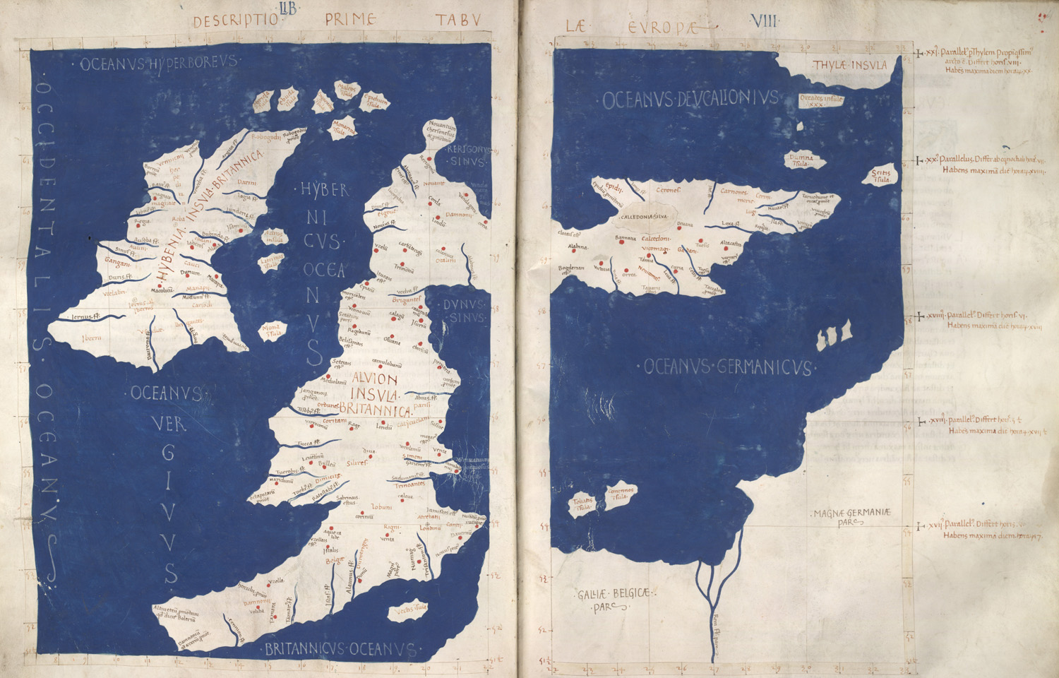 The 1st Map of Europe: A Latin map of the British Isles (Insulae Britannicae): Ireland (Hybernia) and Britain (Alvion), based on Ptolemy's Geography. Note the positioning of Scotland at a right angle to the rest of Britain.